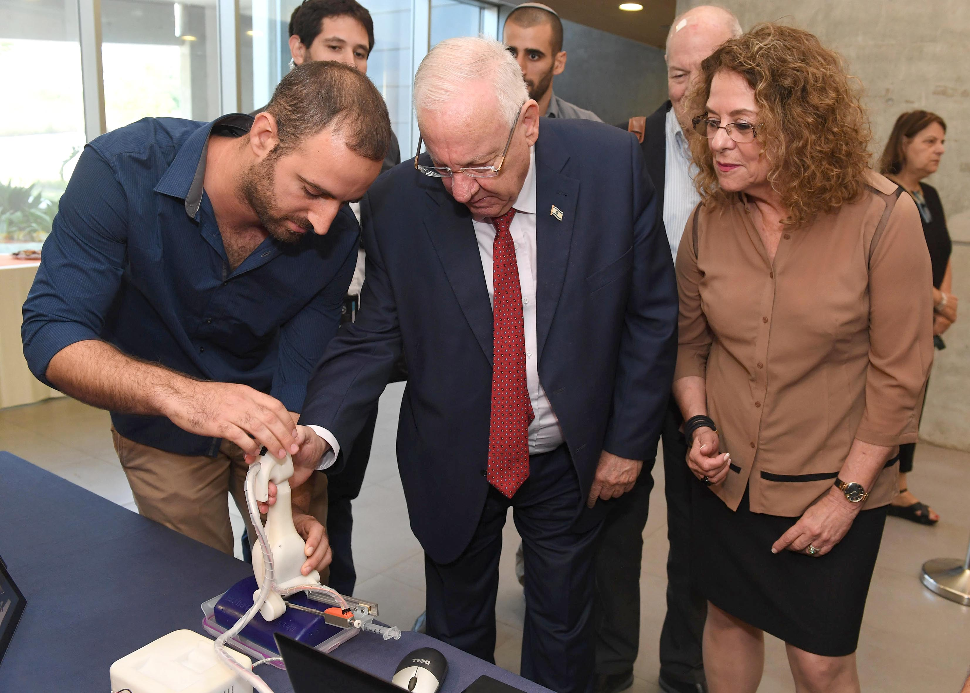 President Reuven Rivlin opens the academic year at Ben-Gurion University of the Negev Sunday, October 22, 2017. Photo Credit: Mark Neyman / GPO.